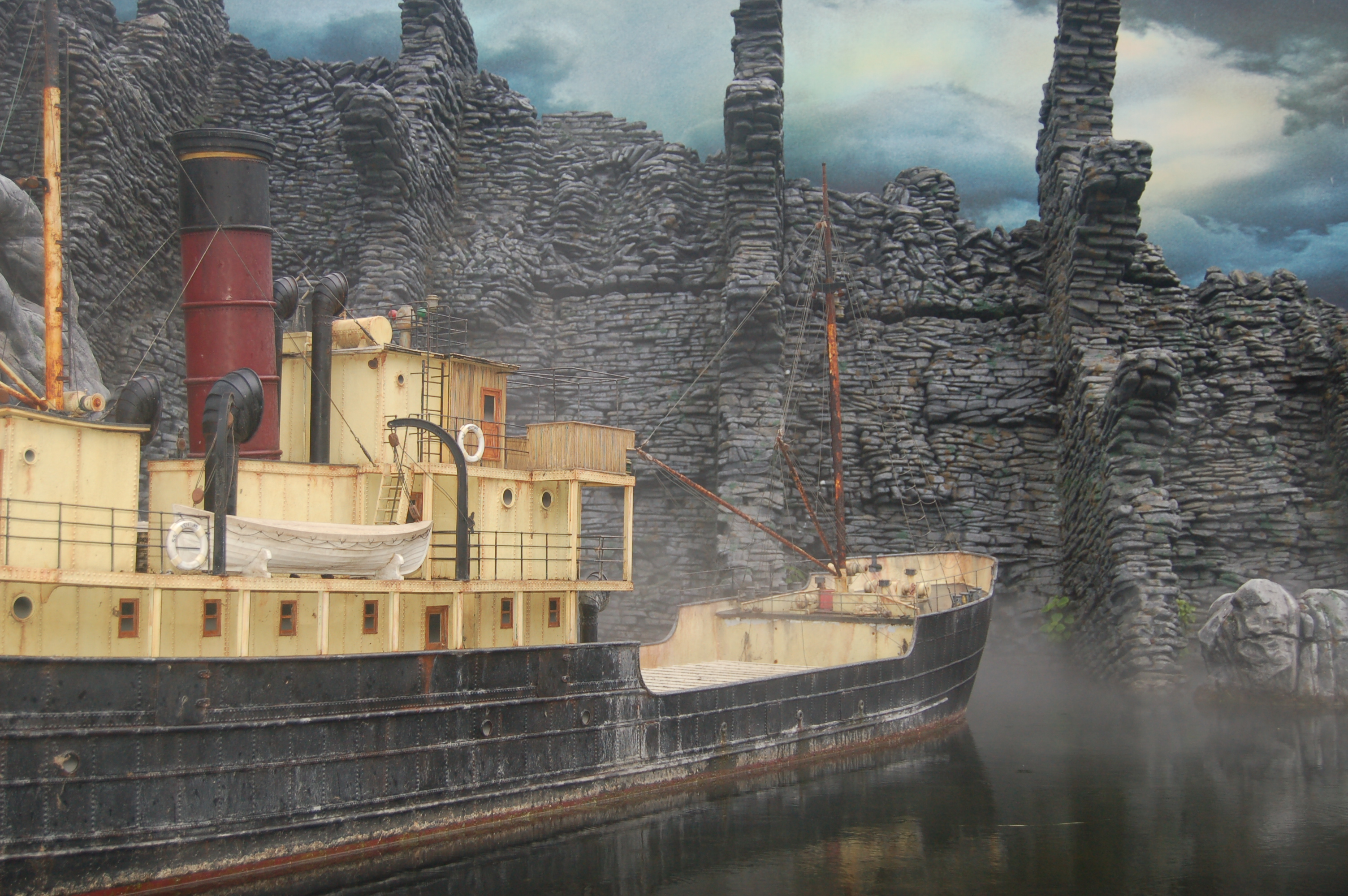 Venture Model Ship From King Kong